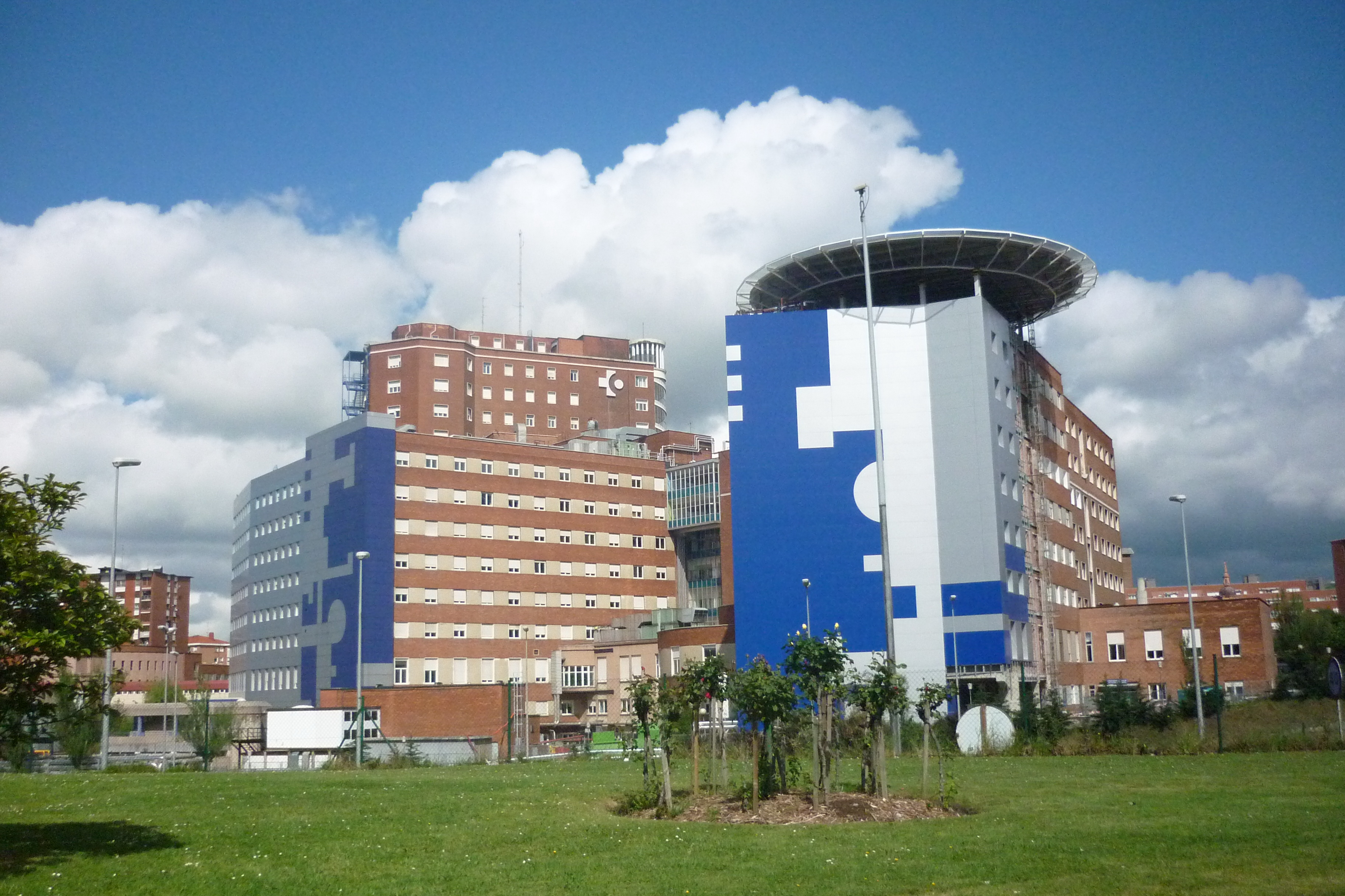 Gurutzeta hospital. Biscay (near Bilbao).